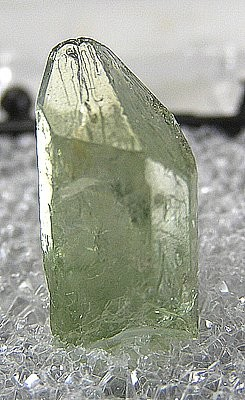 Diopside Locality: Kunlun Mts (Kunlun Shan), Hetian (Khotan; Hotan; Hoten) Prefecture, Xinjiang (Xinjiang-Uygur) Autonomous Region, China (Locality at ) Size: 1.4 x 0.7 x 0.7 cm. A CHINESE gem crystal of diopside - VERY gemmy in fact, with good luster, complete all around and terminated. It has a fine light grass green color.